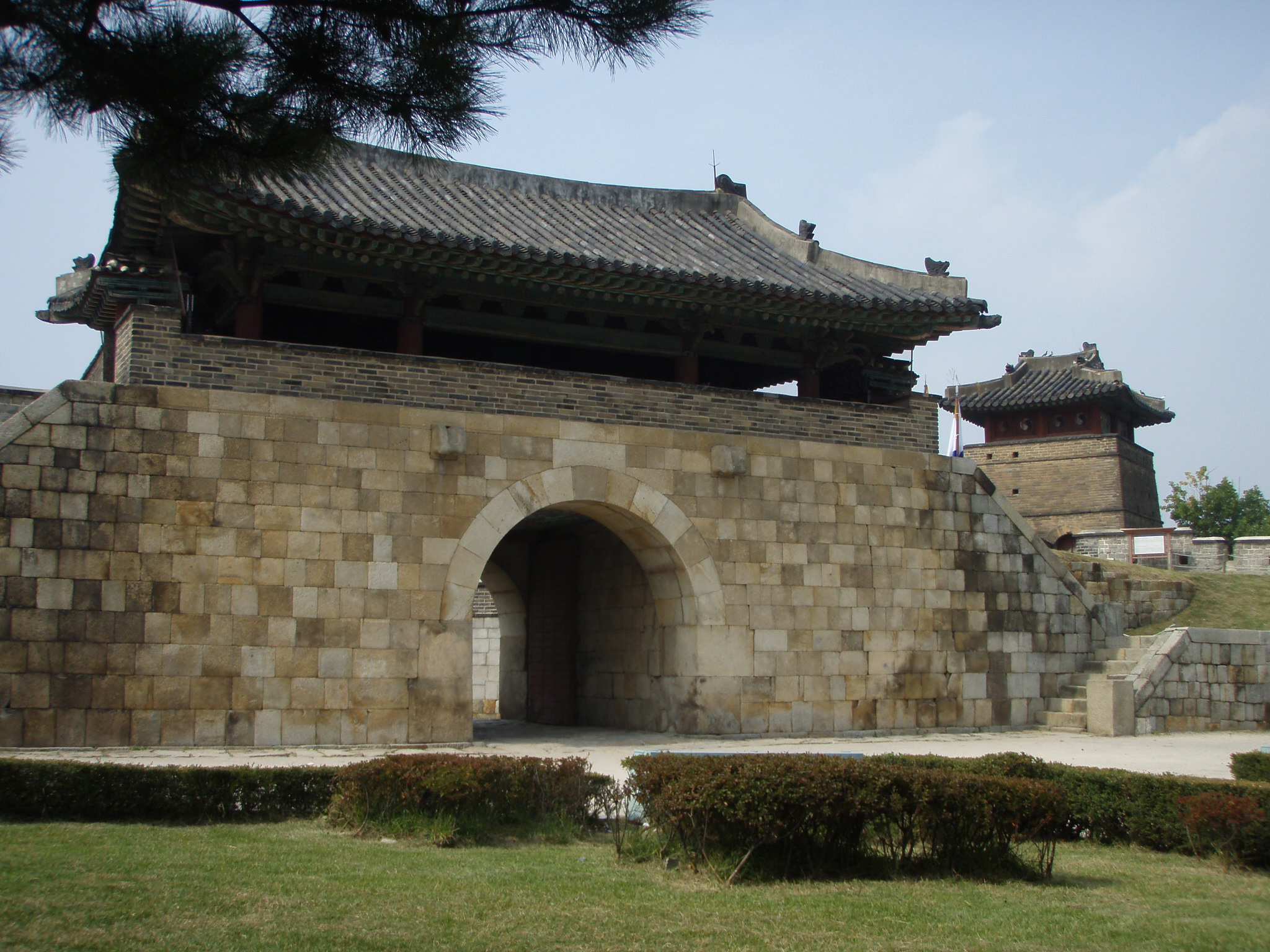 Hwaseomun Suwon Hwaseong Fortress UNESCO World Heritage